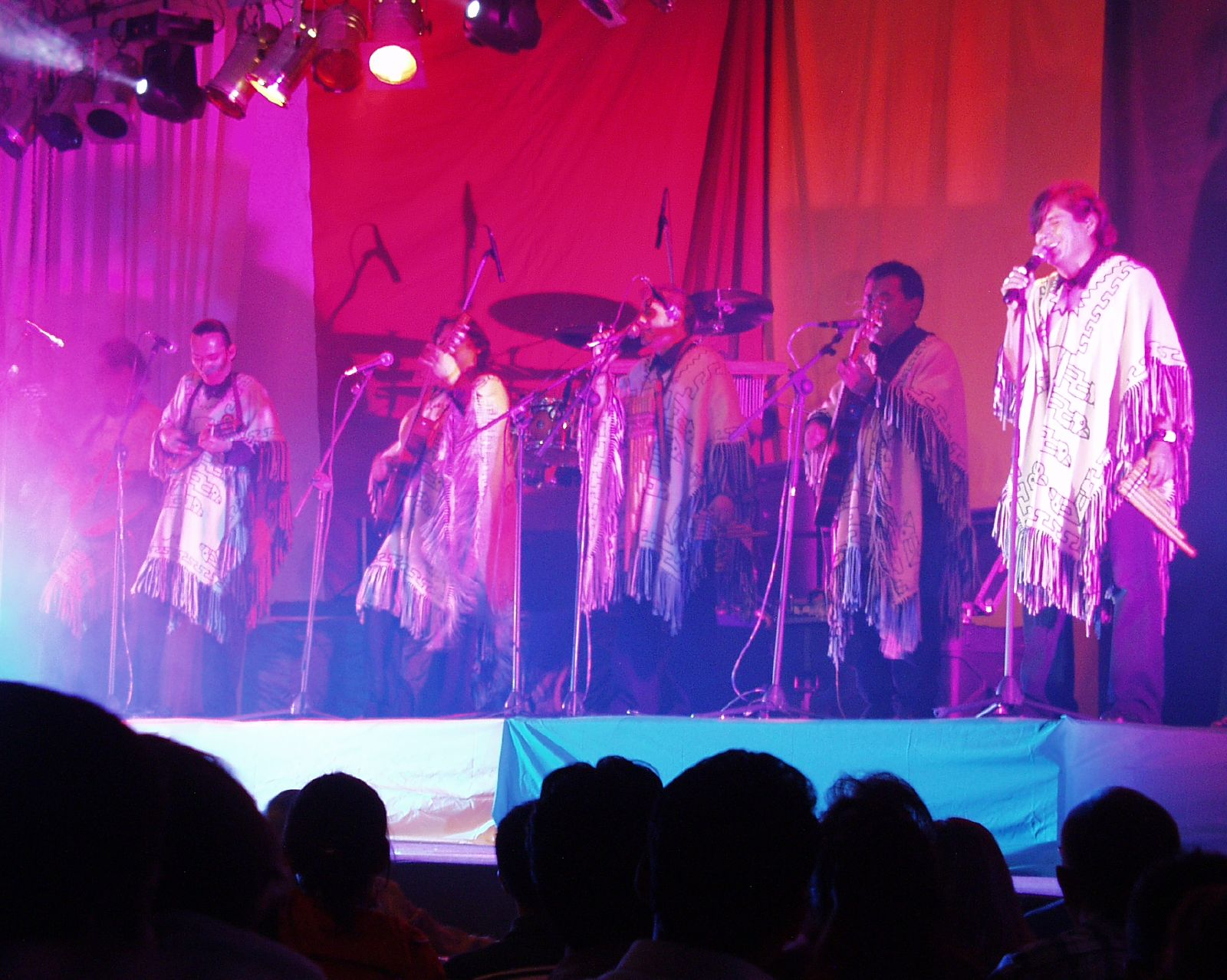 We went to this show the day before Independence Day. It was awesome, I just wish I knew the words so I could sing like all the other Bolivians there.